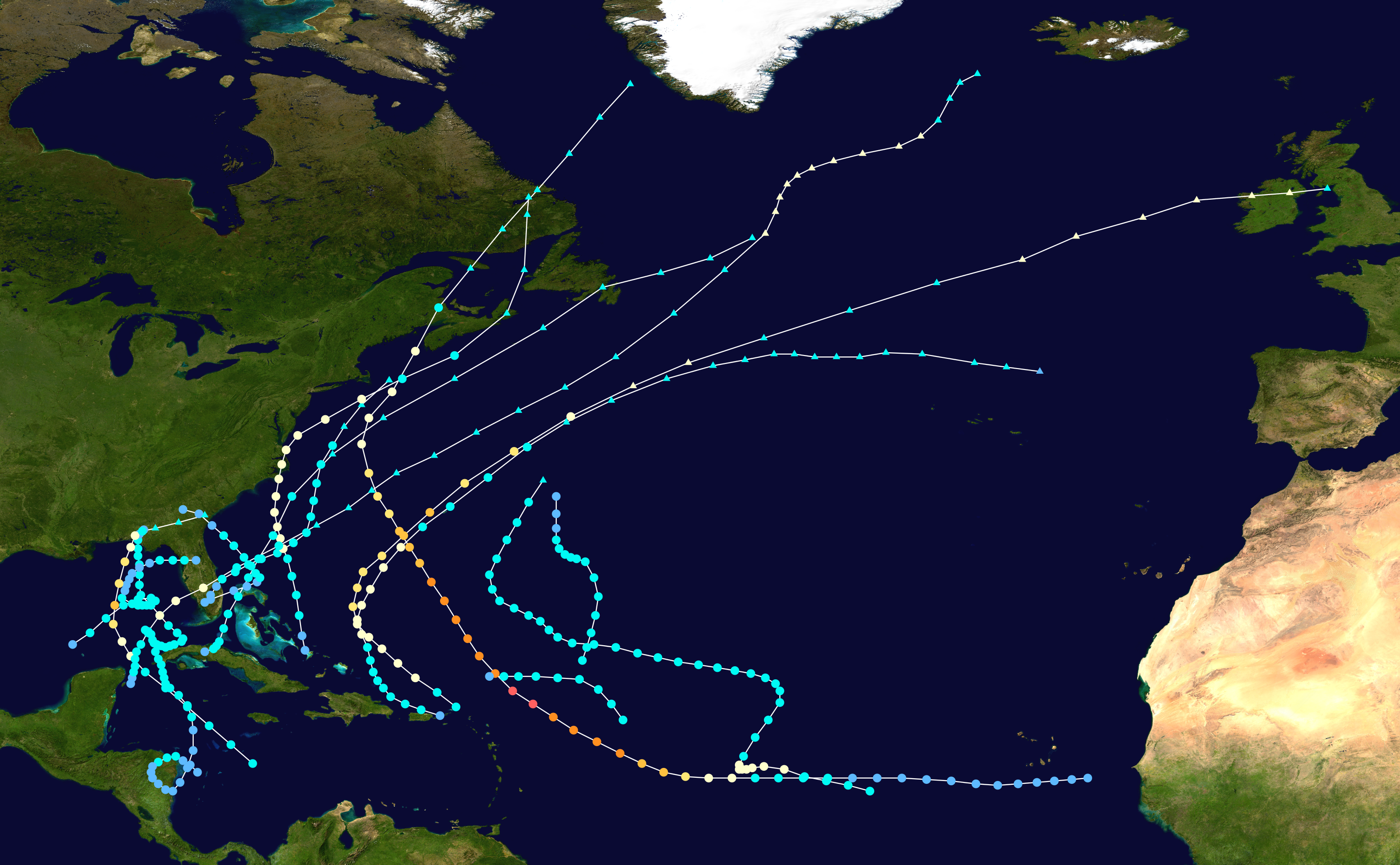 This map shows the tracks of all tropical cyclones in the 1953 Atlantic hurricane season. The points show the location of each storm at 6-hour intervals. The colour represents the storm's maximum sustained wind speeds as classified in the Saffir-Simpson Hurricane Scale (see below), and the shape of the data points represent the nature of the storm. Saffir–Simpson hurricane wind scale Tropical depression≤38 mph≤62 km/h Category 3111–129 mph178–208 km/h Tropical storm39–73 mph63–118 km/h Category 4130–156 mph209–251 km/h Category 174–95 mph119–153 km/h Category 5≥157 mph≥252 km/h Category 296–110 mph154–177 km/h Unknown Storm typeTropical cycloneSubtropical cycloneExtratropical cyclone / Remnant low / Tropical disturbance